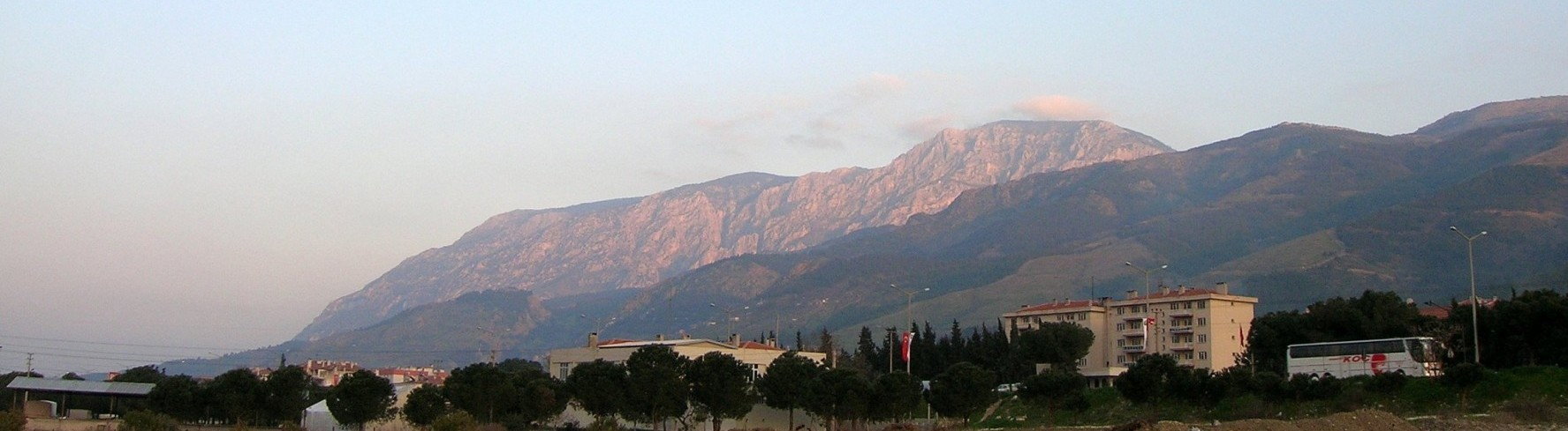 General view from the north, as seen from the plain of Manisa, of Mount Sipylus (Spil Dağı), Manisa, Turkey